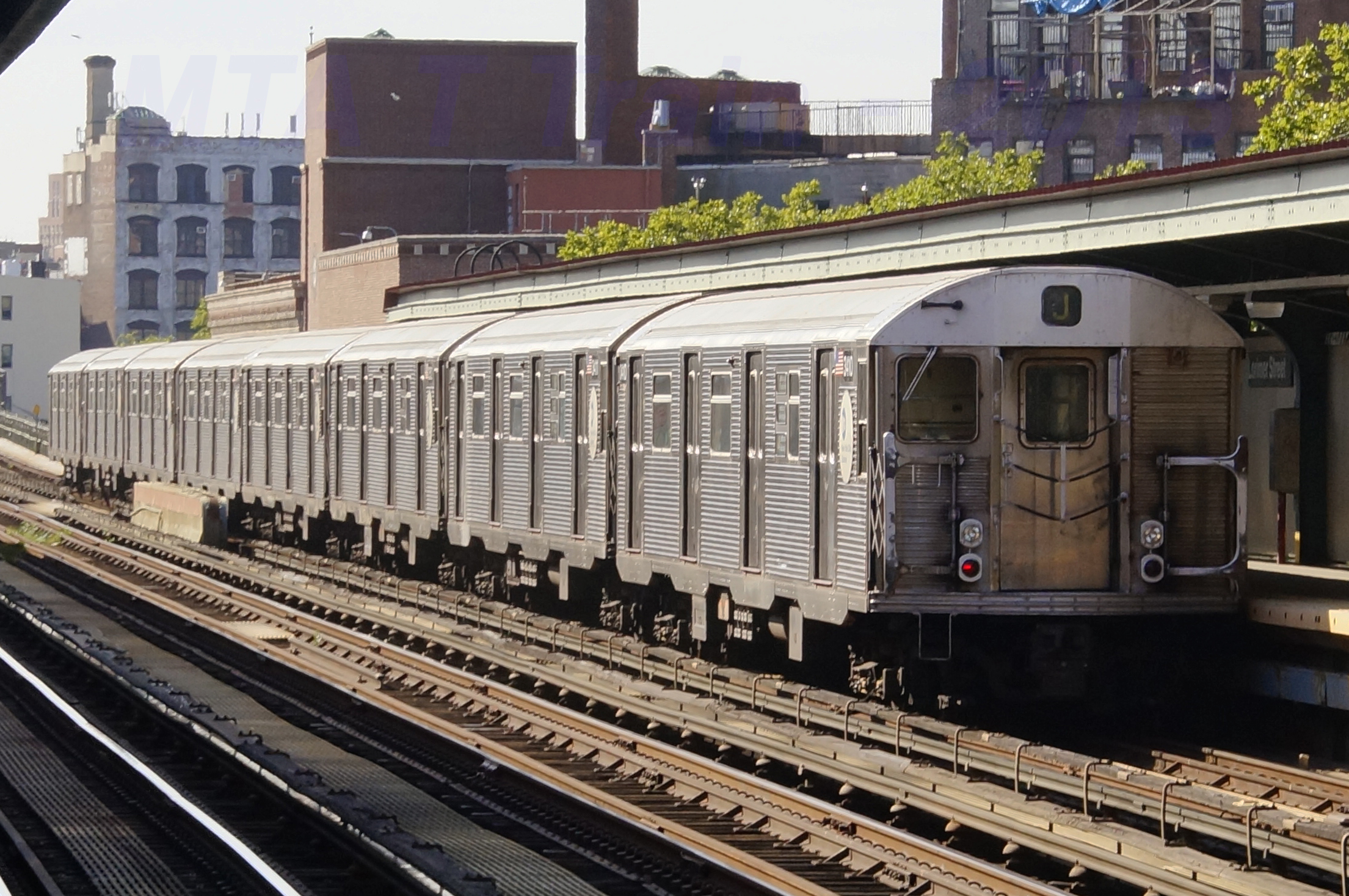 MTA NYC Subway J train of R32s leaving Lorimer St.